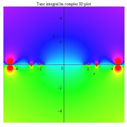 Tanc Im complex 3D plot